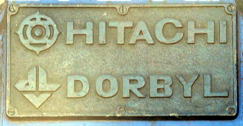 SAR Class 7E3 Series 1 E7252 Builder's PlateLocation: Vryheid, Kwa-Zulu Natal